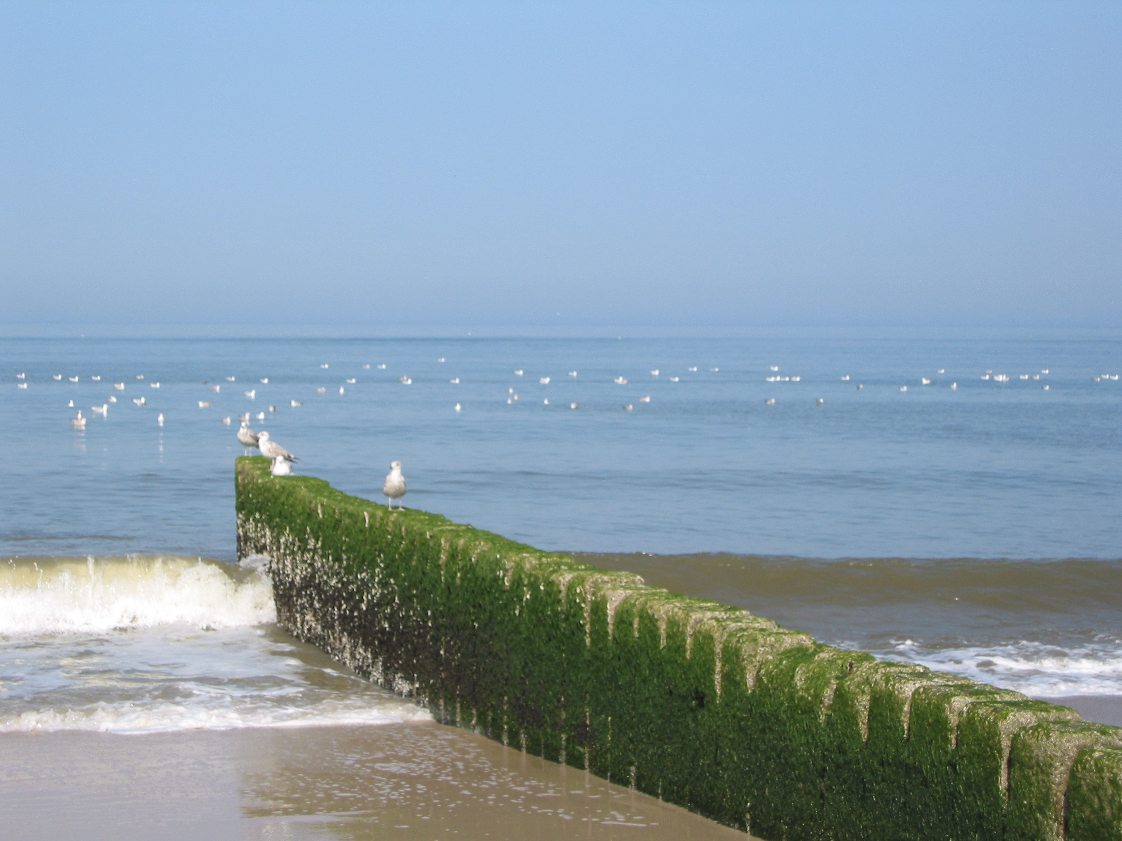 Groyne near Westerland, Sylt, Germany, July 2002.